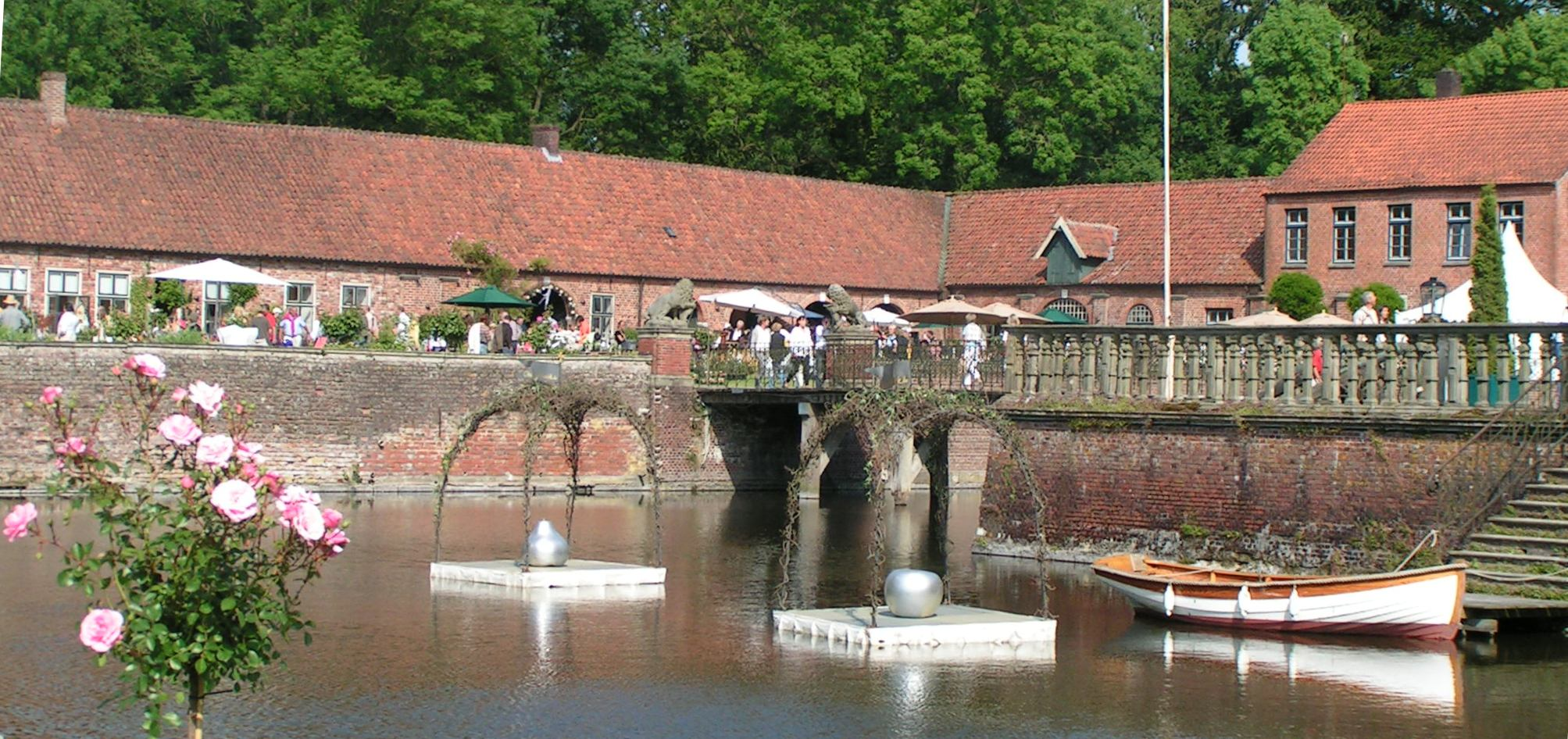 Garden festival in the park of Gödens Castle